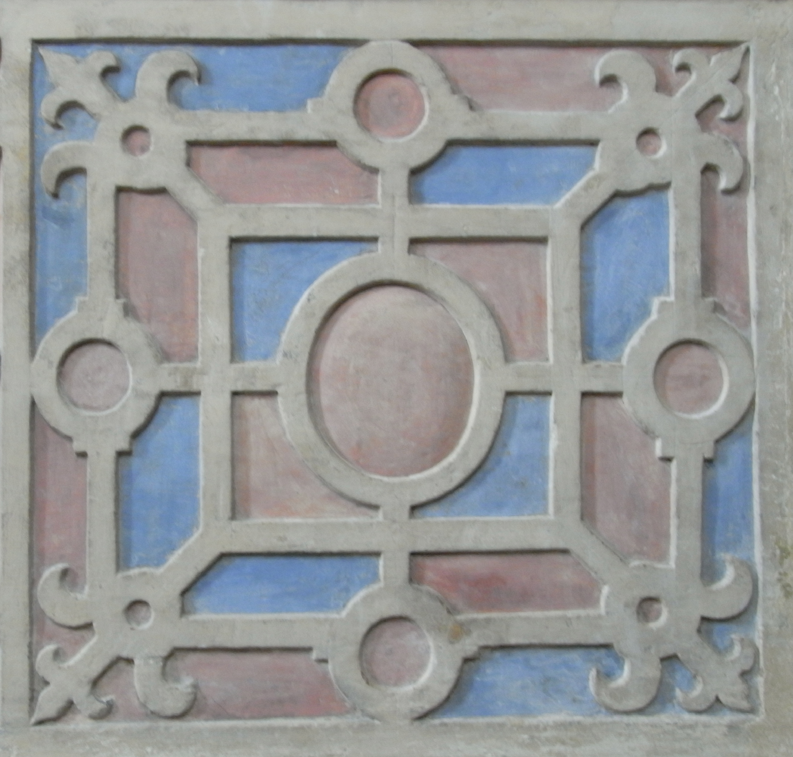 Strapwork panel on monument to Sir Gawen Carew (d.1575), Chapel of St John the Evangelist, north aisle, Exeter Cathedral